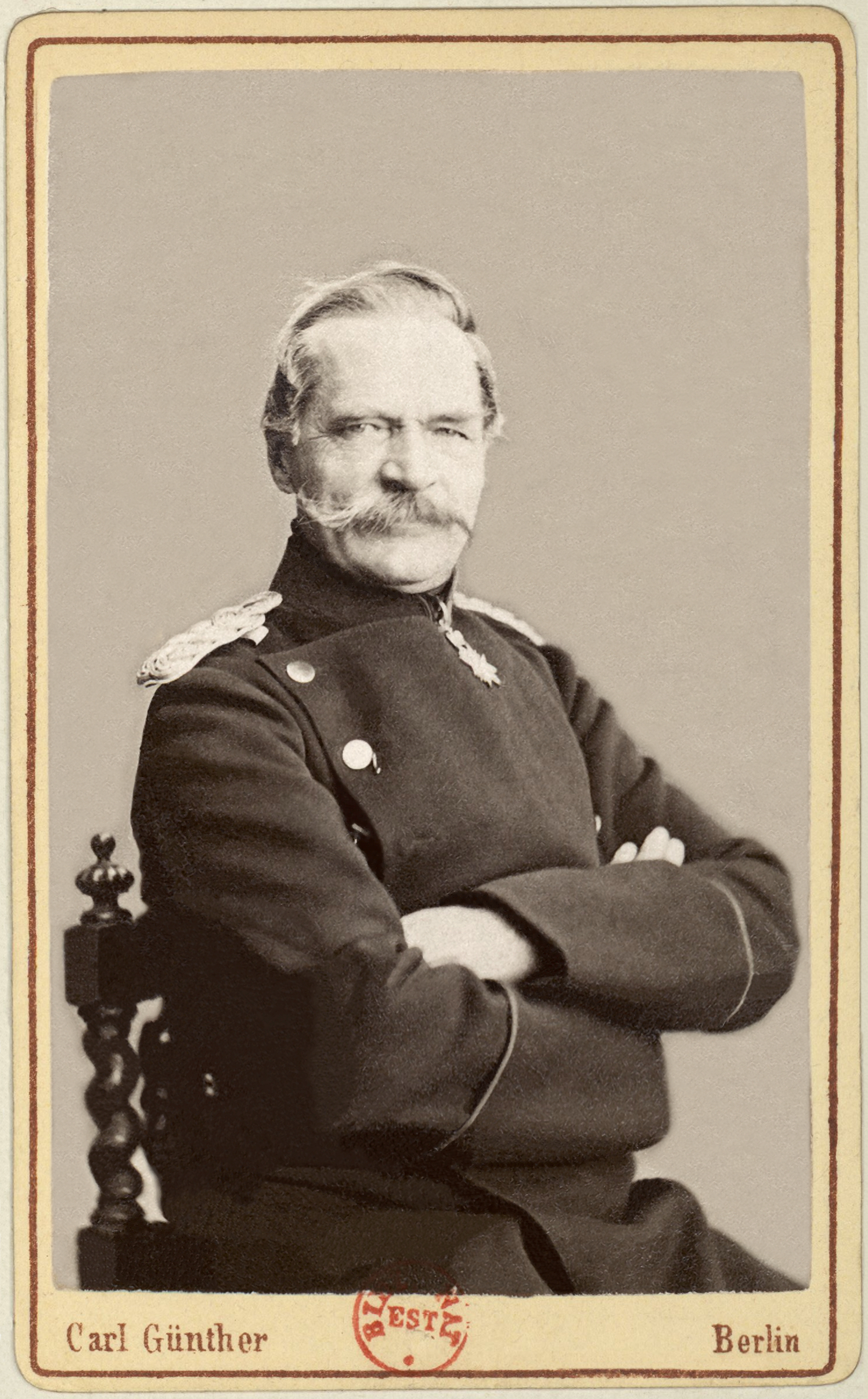 Albrecht, count von Roon, (1803-1879), Generalfeldmarschall, prussian minister of War between 1859 & 1873, modernizer of the prussian, and german, army.